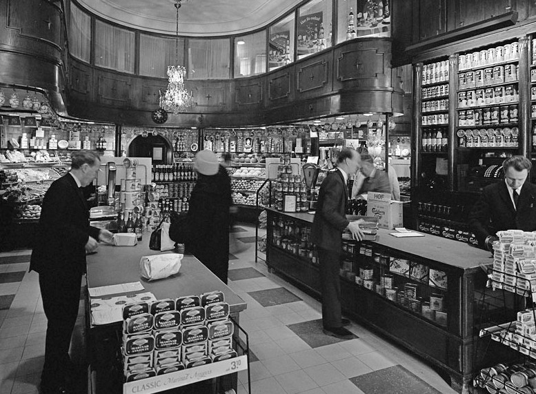 FOTOGRAFIBirger Jarlsgatan 24. Arvid Nordqvist handels AB. 1968-1968FOTOGRAF: Petersens, Lennart af.BILDNUMMER: F 82007Stockholms stadsmuseum, Sweden